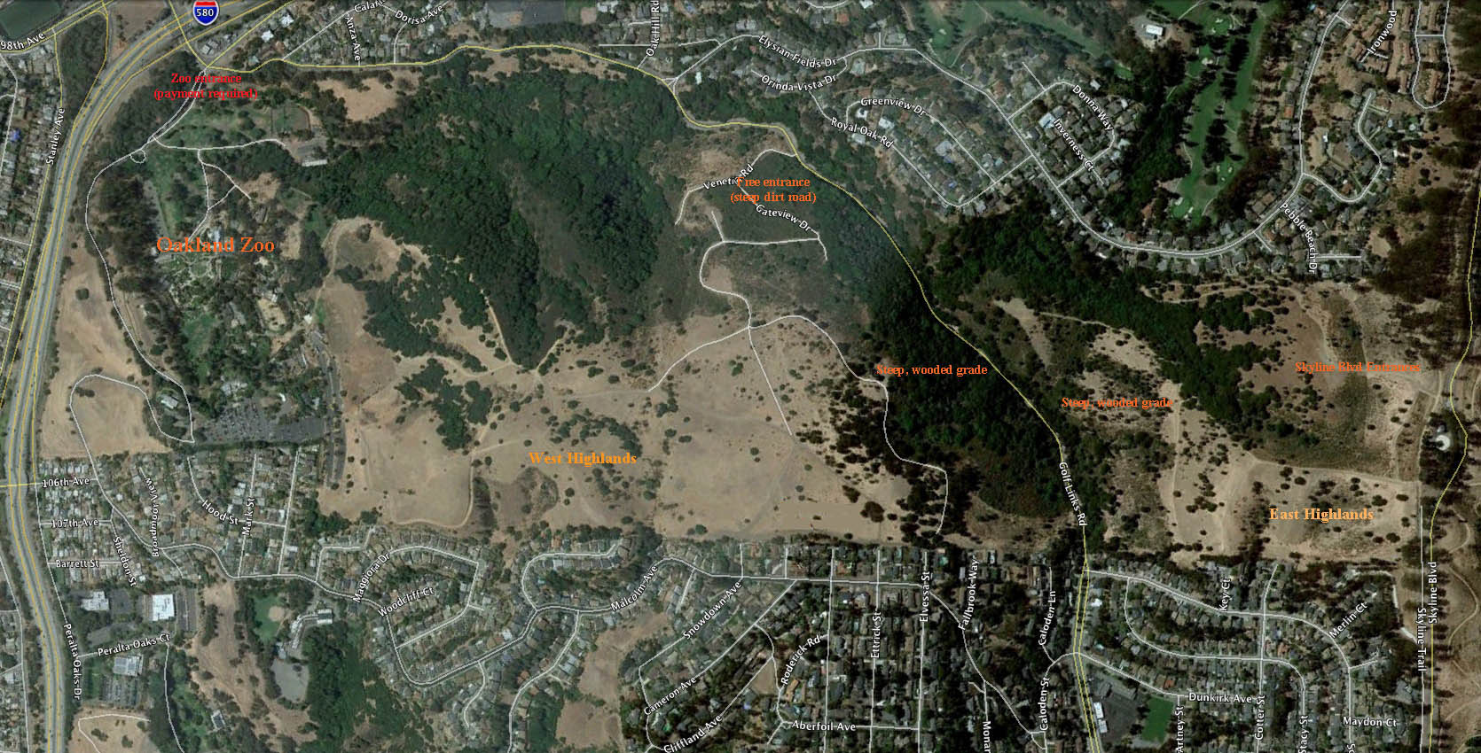 Aerial view of Knowland Park in Oakland, California with areas of park labeled